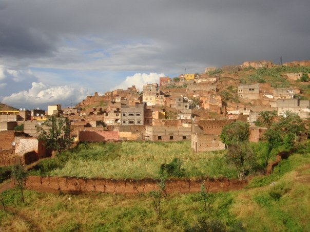 aerial shot of Bzou